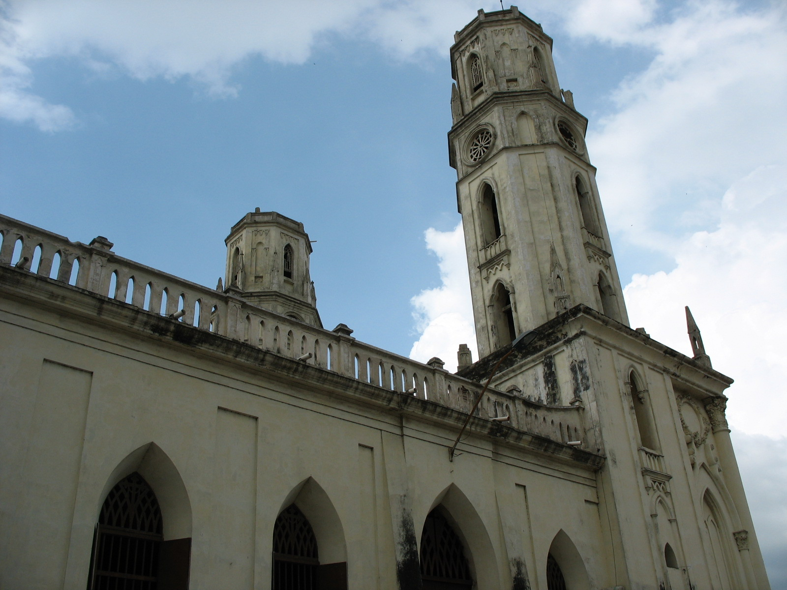 Iglesia San Nicolás Barranquilla - South side